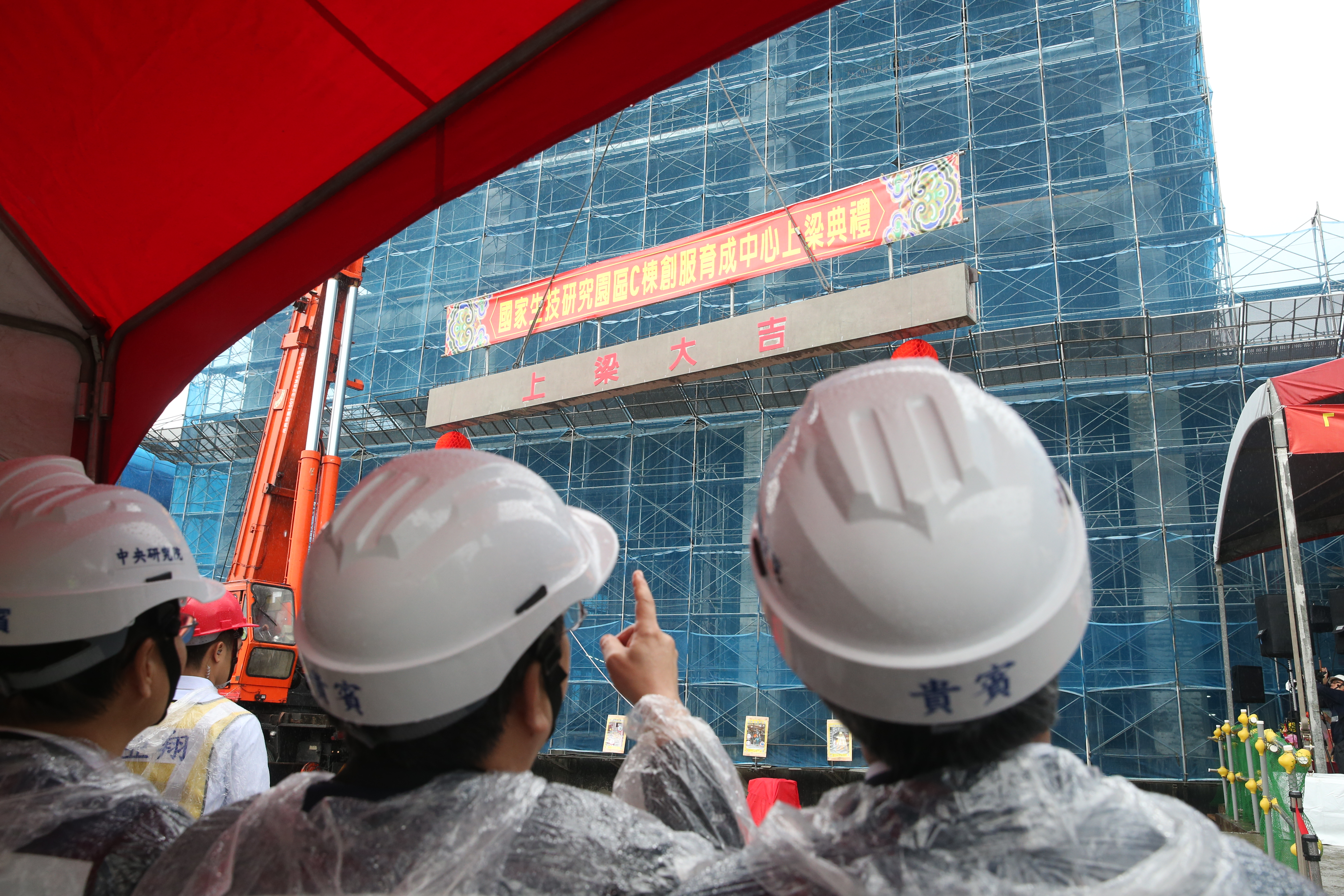 授權方式及範圍：中華民國總統府│政府網站資料開放宣告 Authorization Method & Scope: Office of the President, Republic of China (Taiwan) | Government Website Open Information Announcement